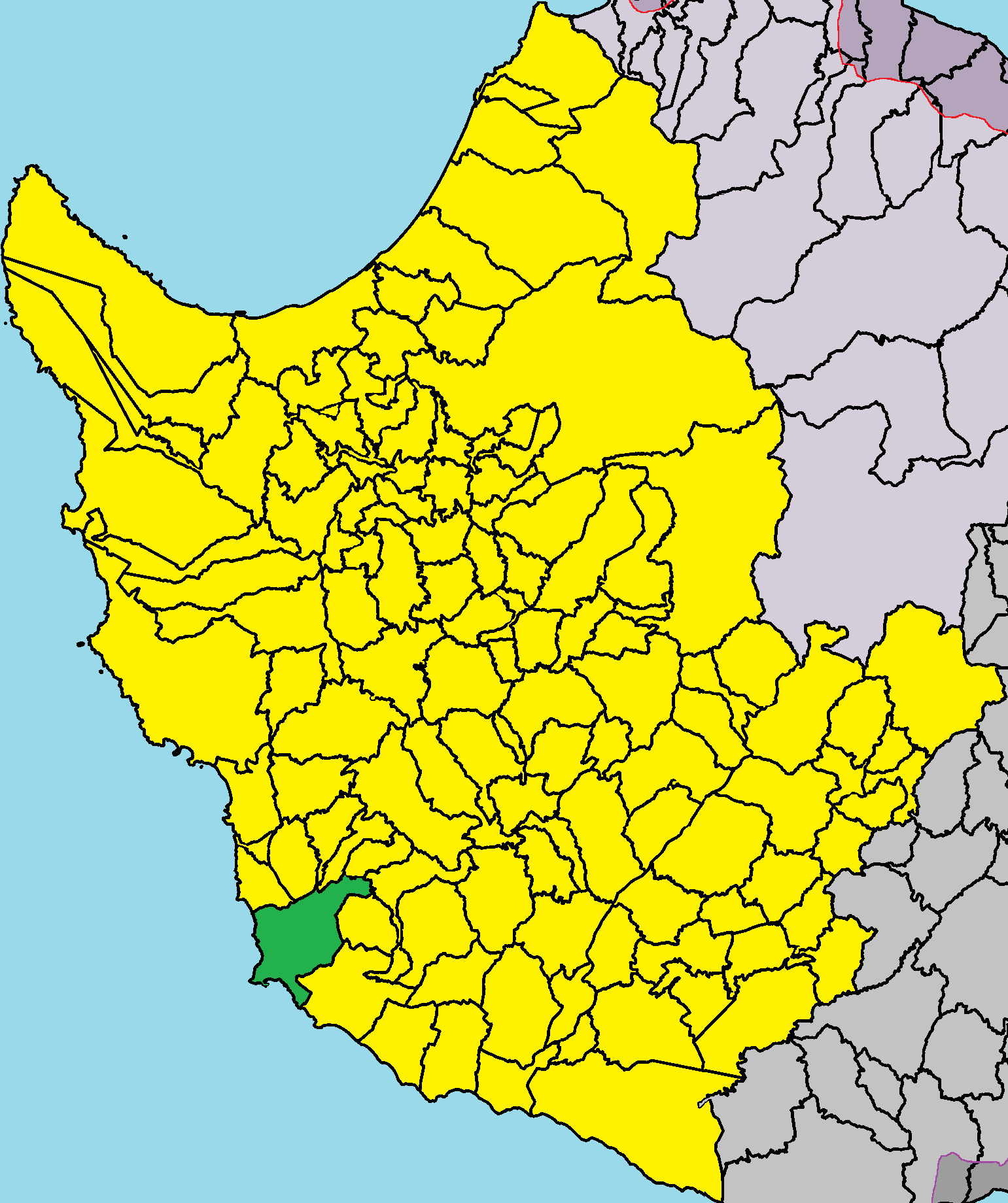 Paphos Municipality in Paphos District.